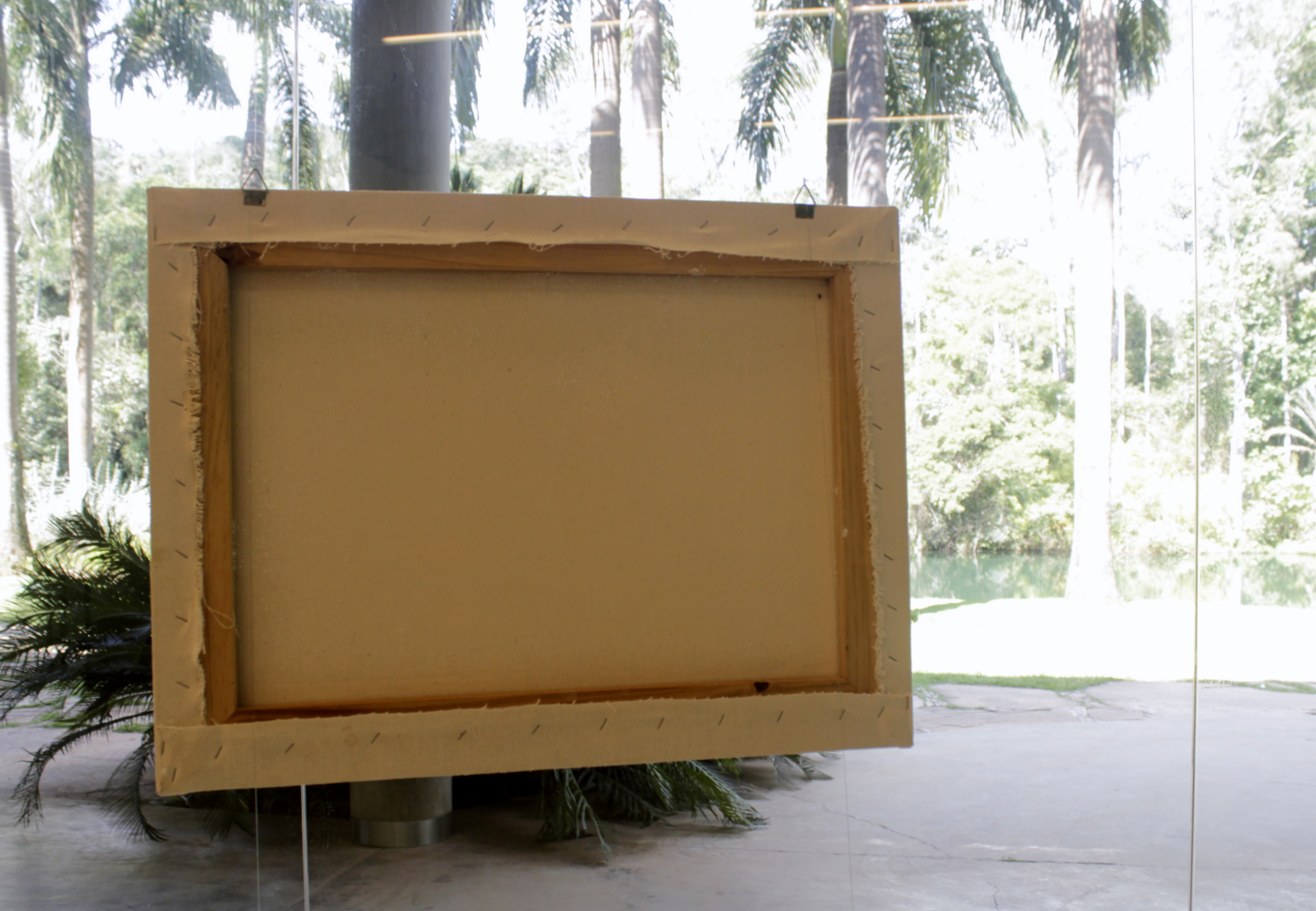 Backside of painting "Campos sur les Bords du Rio das Velhas", by Juan Araujo, 2013. At Inhotim.